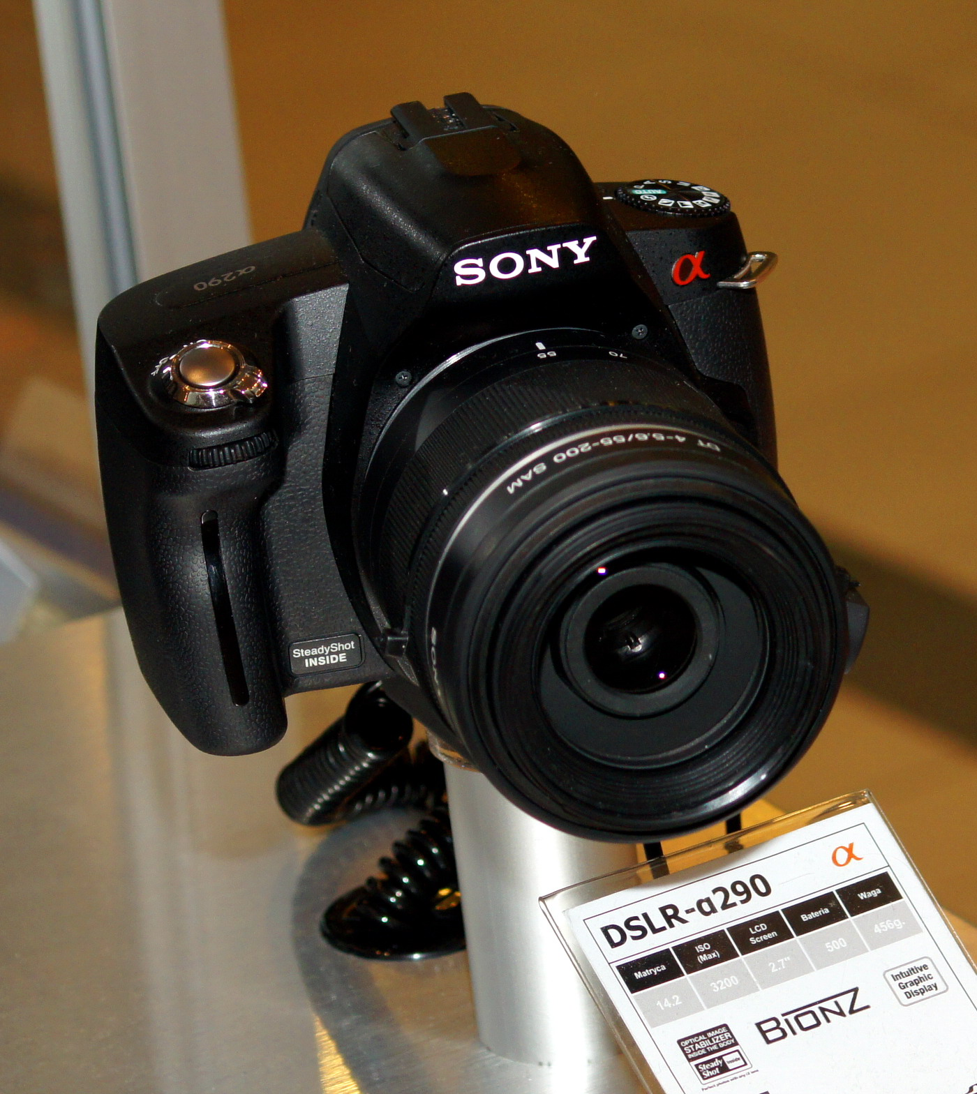 Sony DSLR-A290 digital SLR camera.